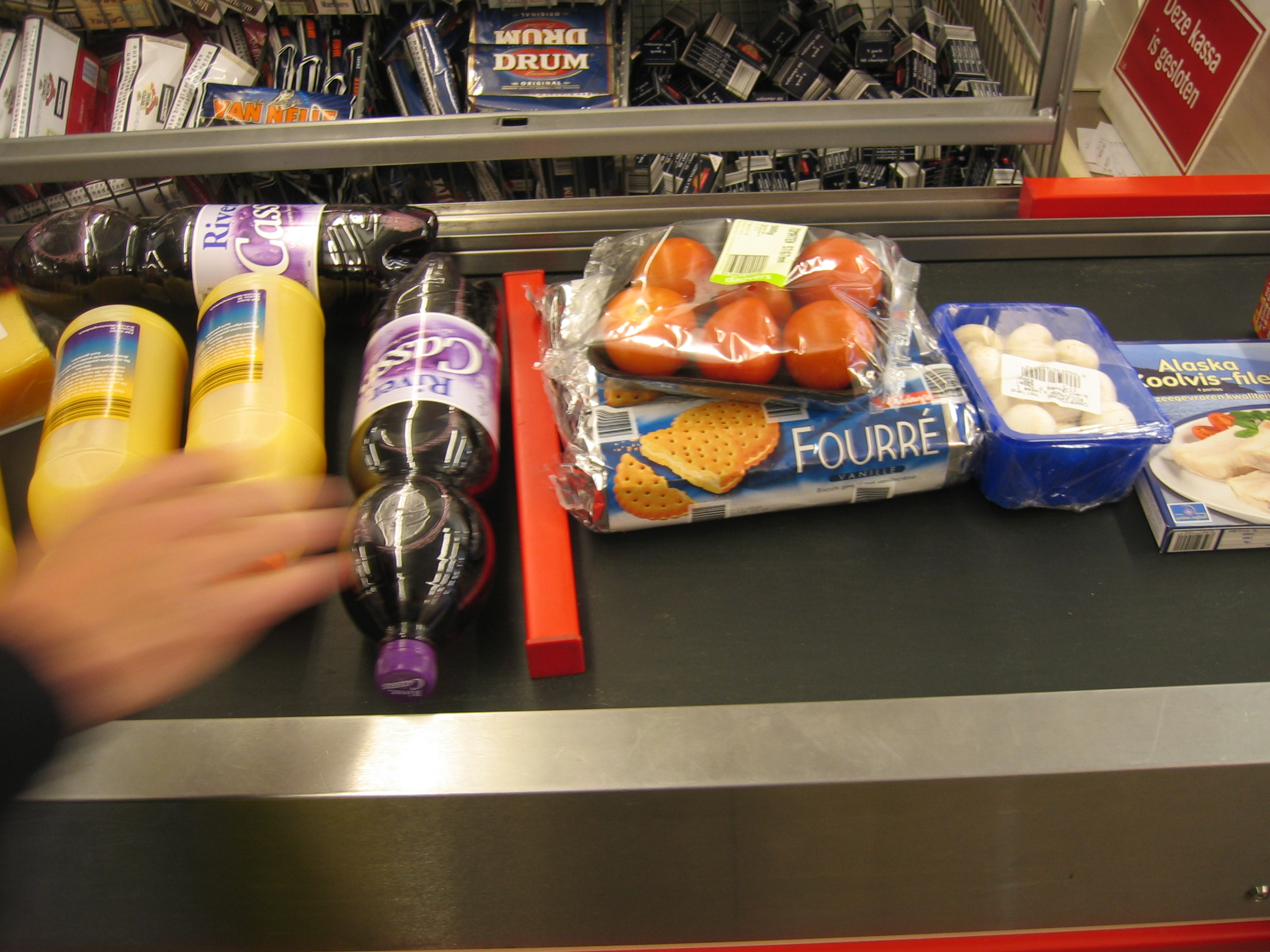 Bar used to divide the groceries of different customers in a supermarket (Aldi Daalhof, Maastricht, Netherlands)